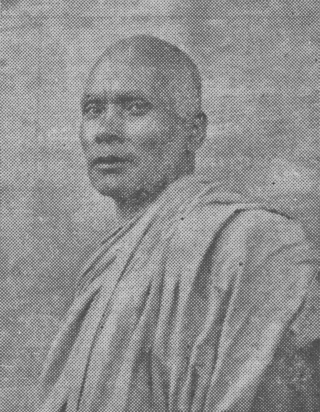 Potrait of Nepalese Buddhist monk Dhammalok Mahasthavir (1890-1966).